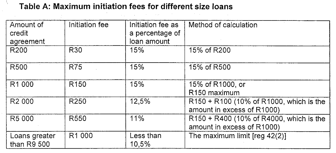 Examples of the calculation of maximum initiation fees for different size credit agreements in South African law.